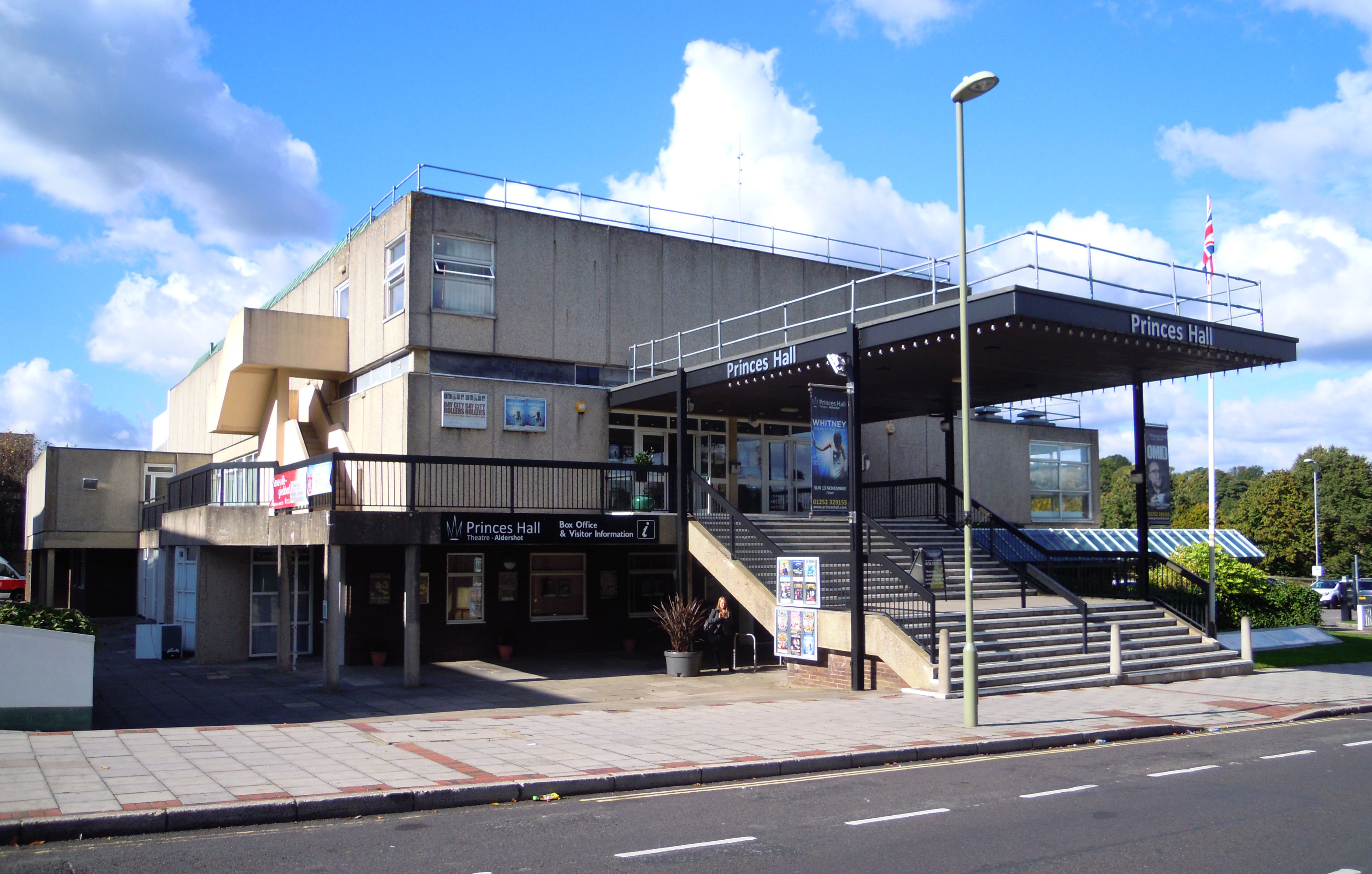 Princes Hall in Aldershot in Hampshire